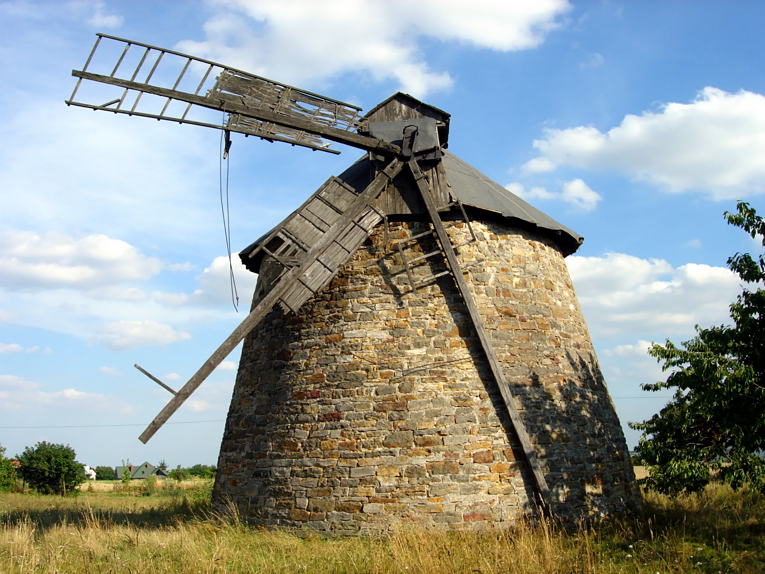 Windmill in Szwarszowice, Poland